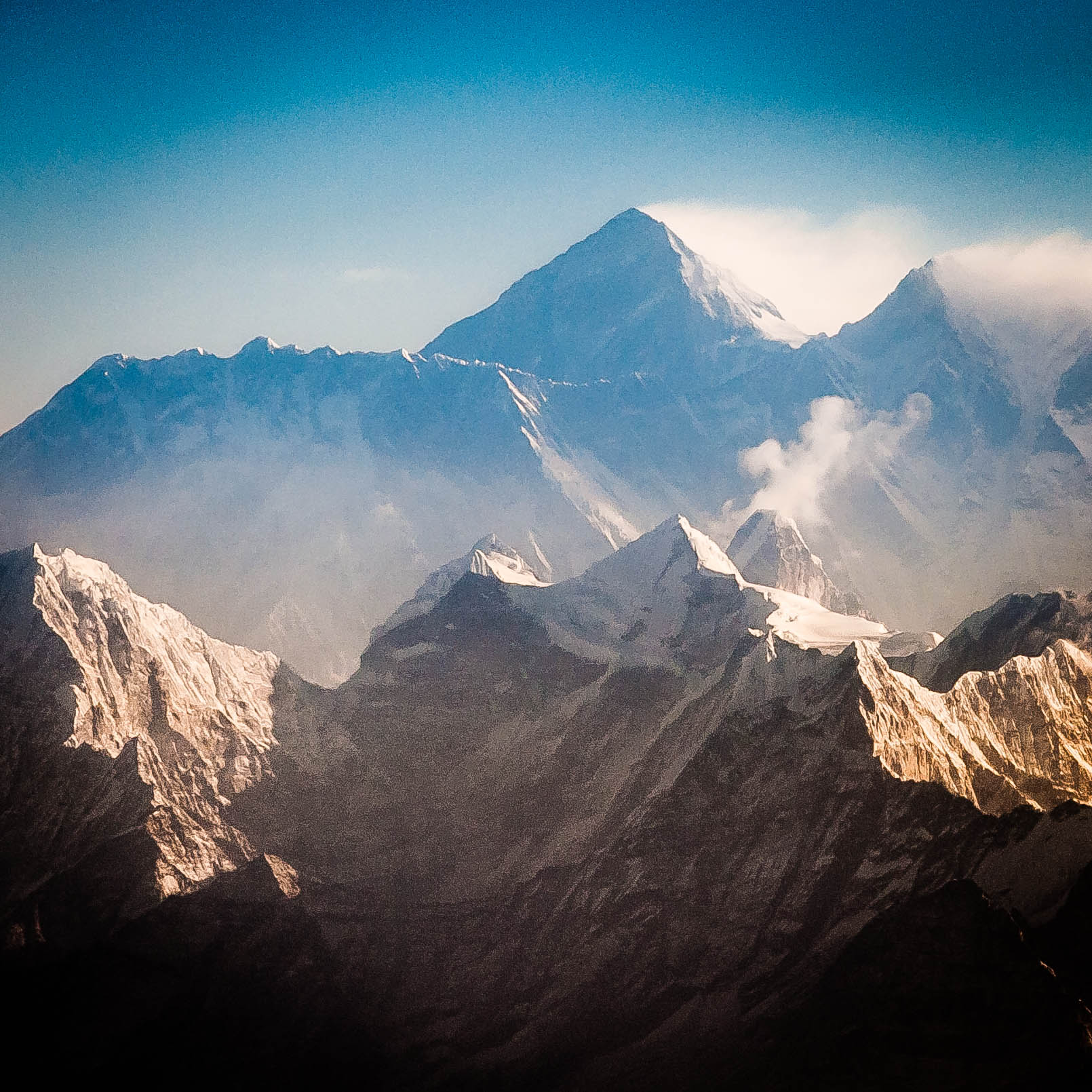 View northward of Nuptse, Mt. Everest and Lhotse in the early morning, in the foreground Thamserku (left) and Kantega (right of center) and Ama Dablam right behind the latter.